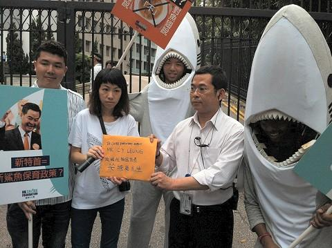 Activists present 'Shark Fin Letter' to the governor's house, Hong Kong, May 13, 2012.